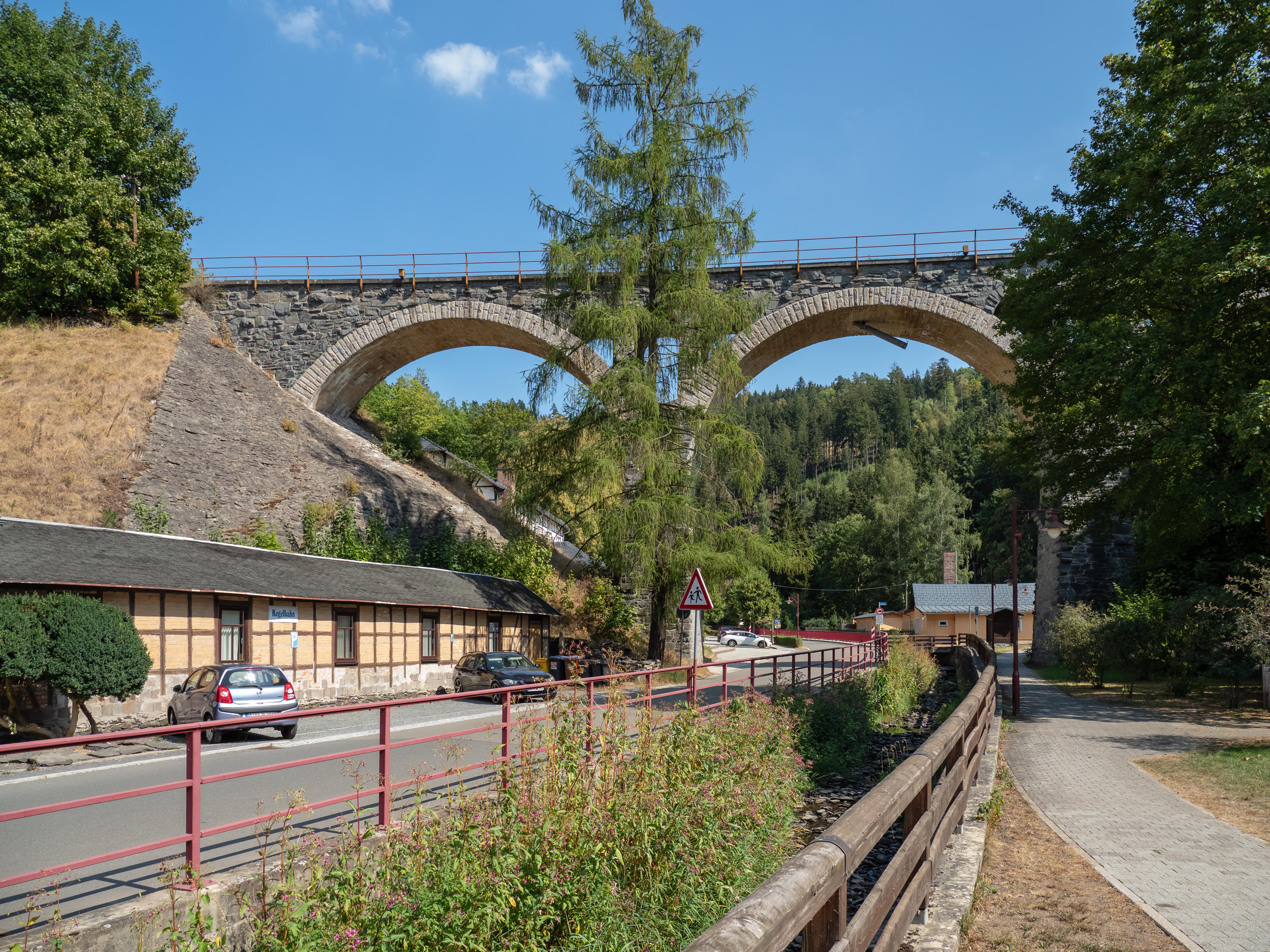 Plothenbach Bridge in Ziegenrück in Thuringia